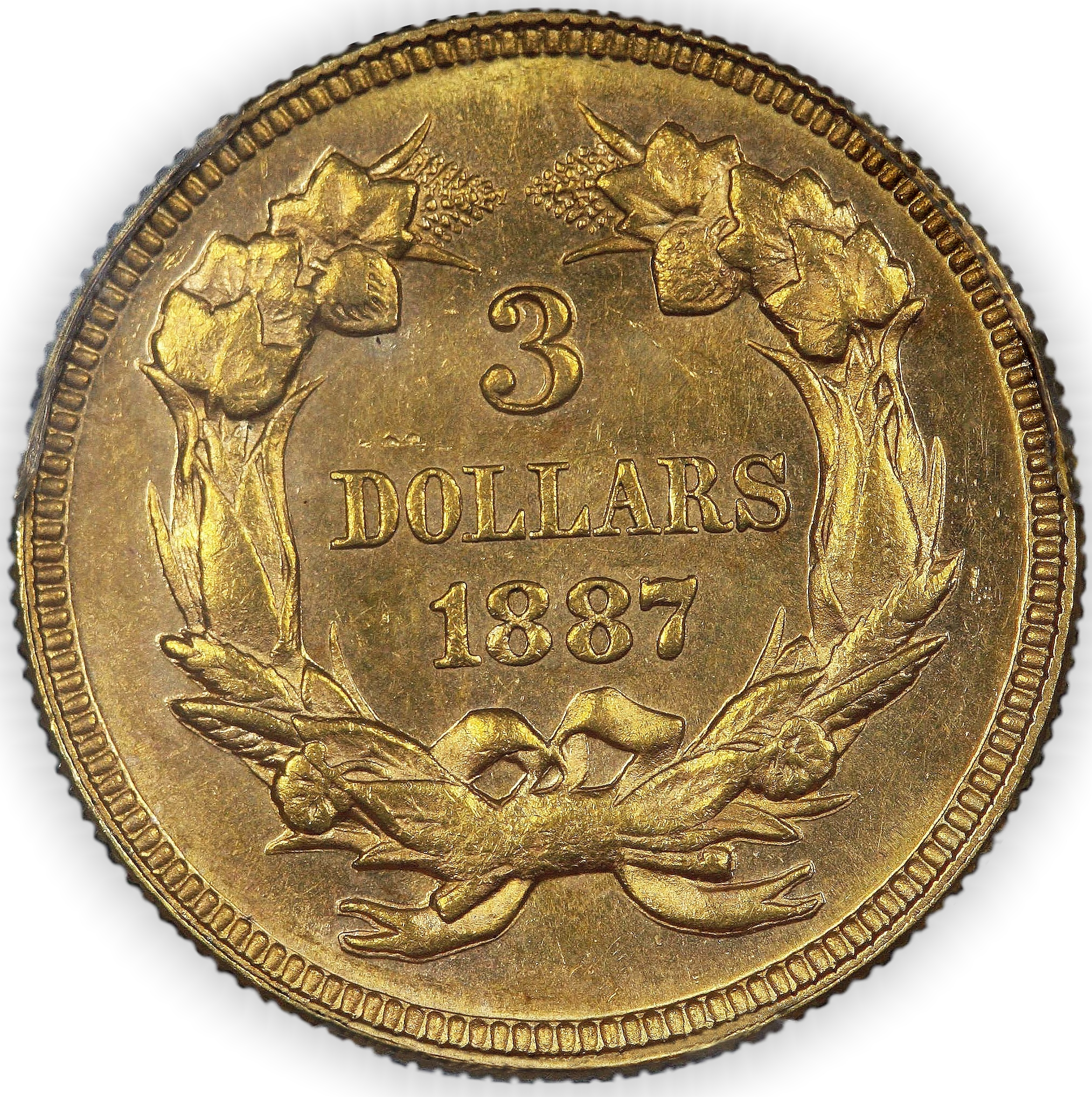 1887 gold three-dollar piece reverse